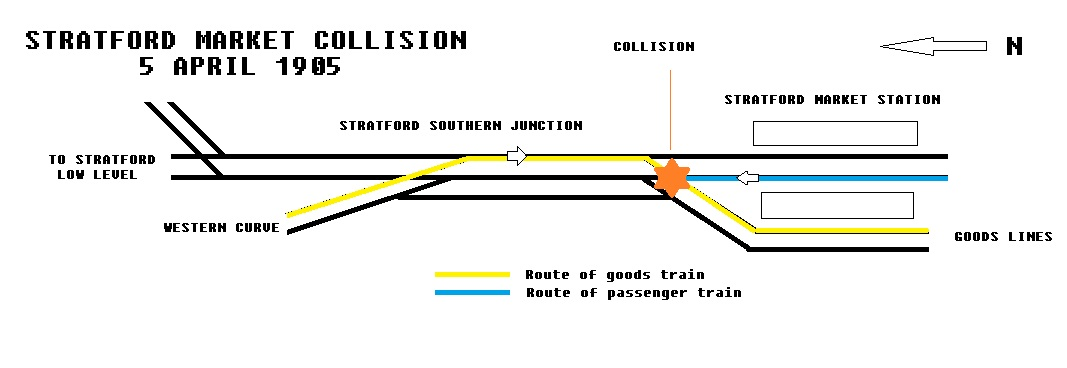 A diagram indicating the moves of the two trains involved in the Stratford market train collision of 1905.